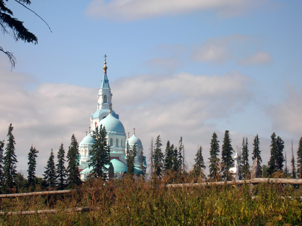 Valaam Monastery